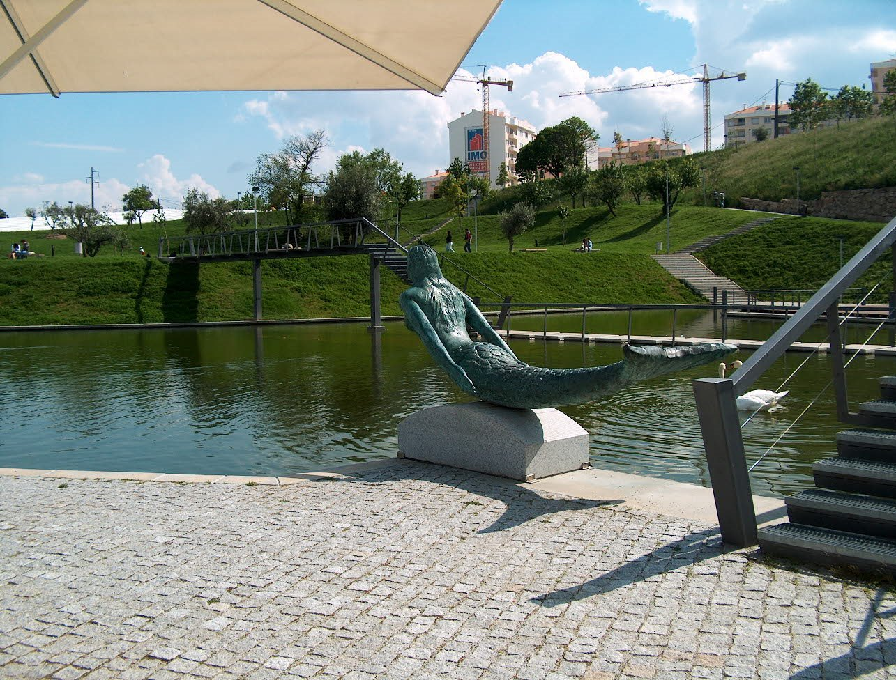 Garden of the lake, Covilhã